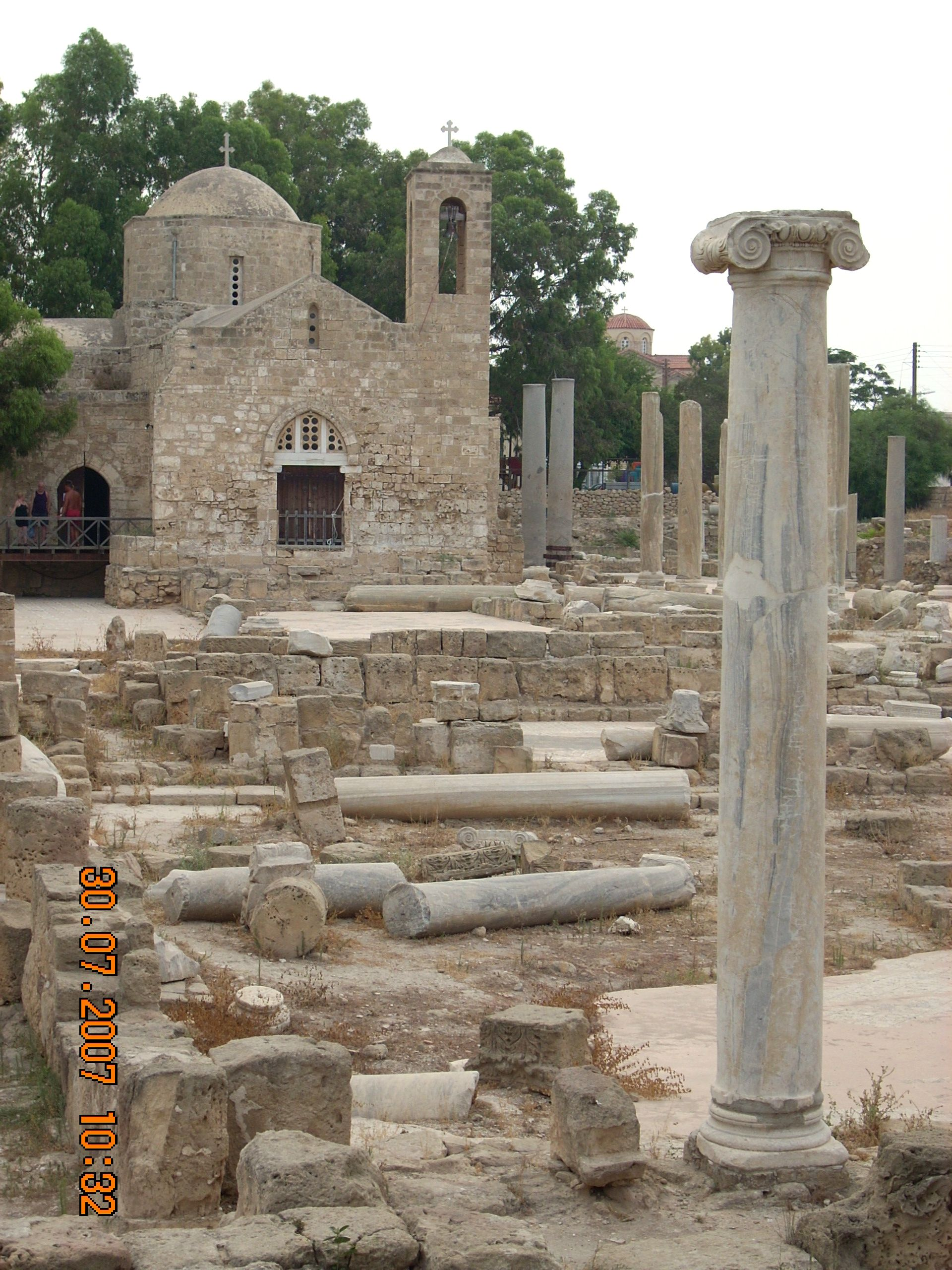 Early Christian Basilica, Paphos, Cyprus. Roman Catholic church of Paphos (